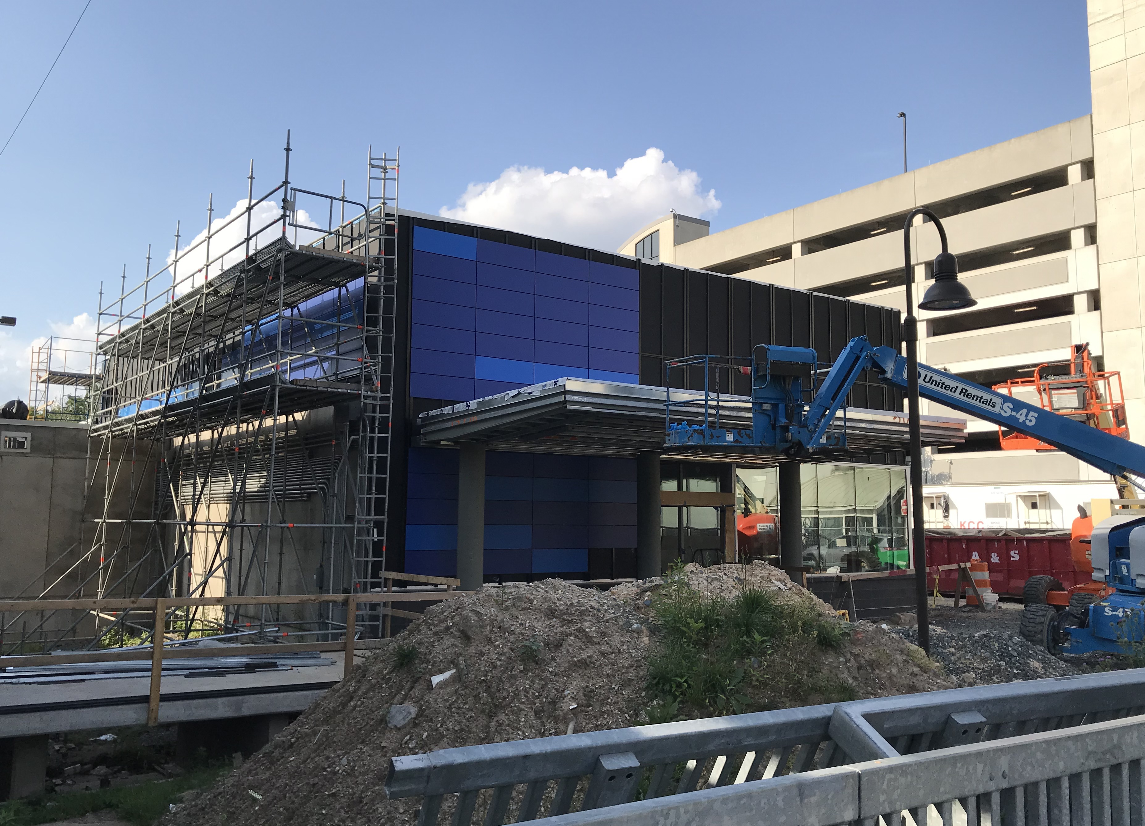 Construction of the new station building at BWI Rail Station in June 2019